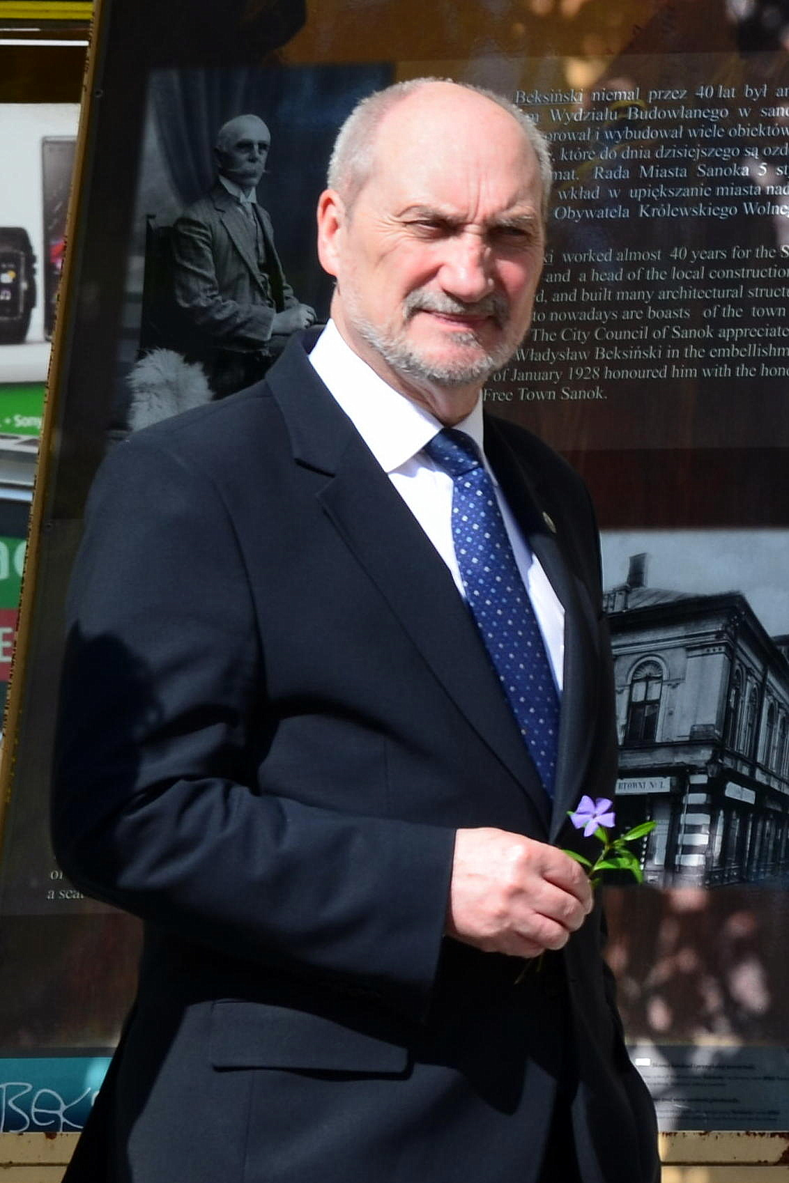 02014 Antoni Macierewicz